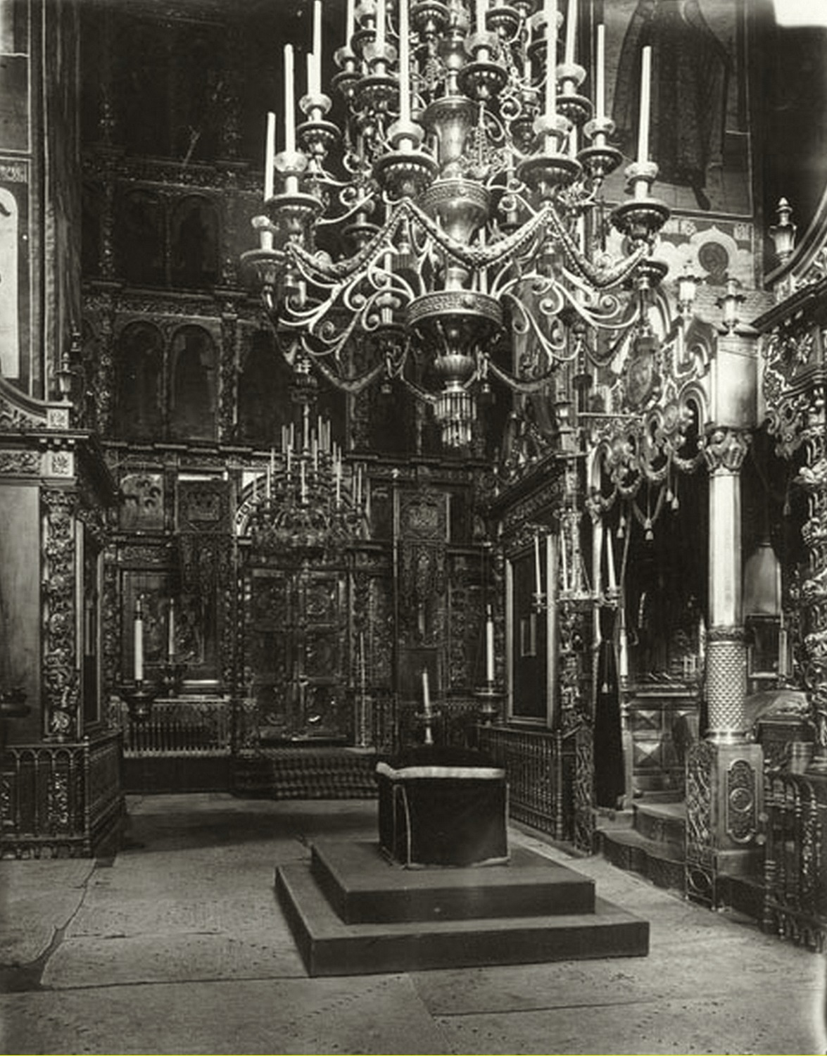 The interior of Dormition Cathedral in Yaroslavl